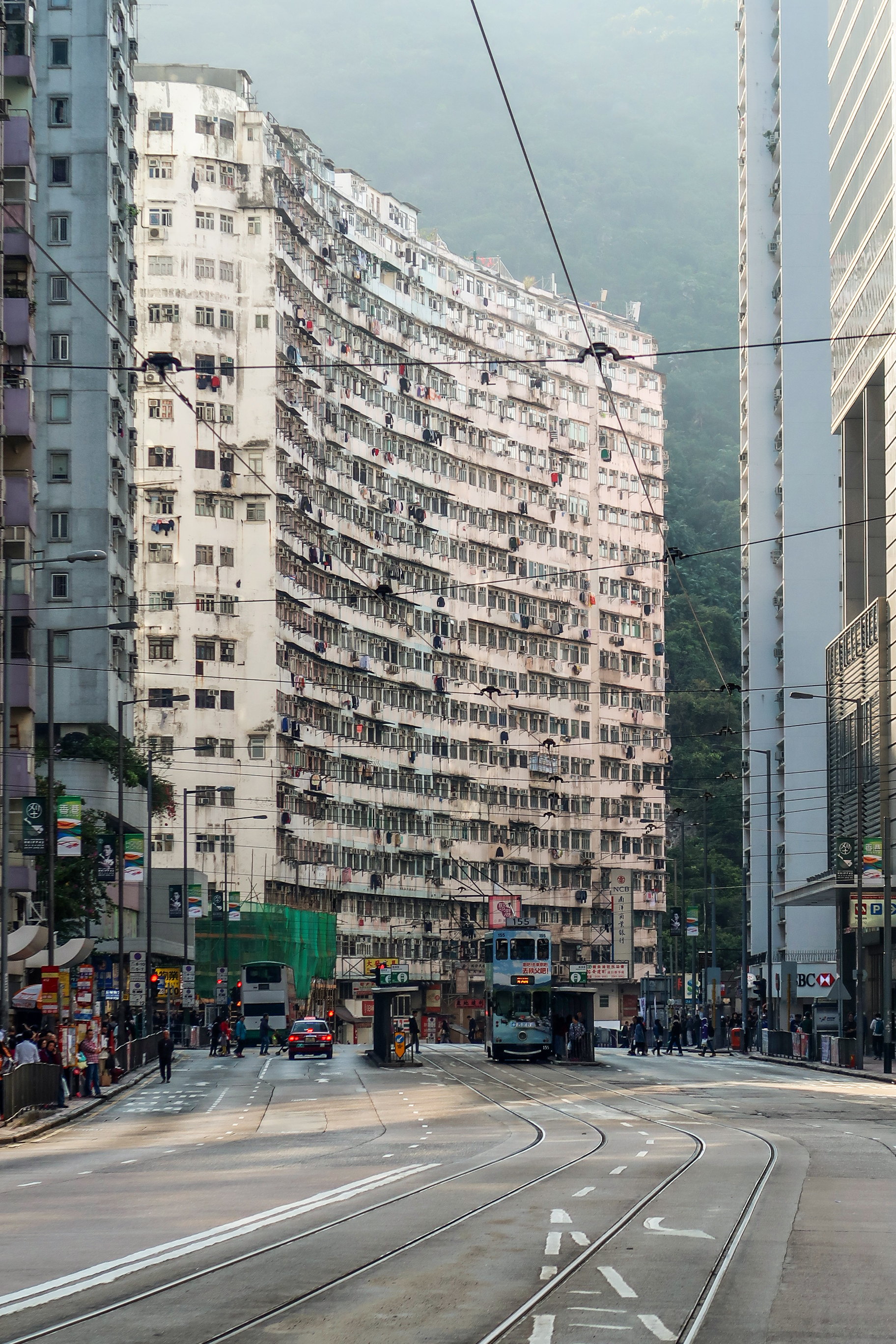 Fook Cheong Building